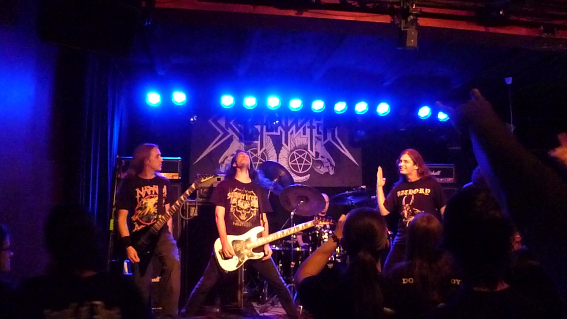 Warbringer live at the Kleine Klub (Saarbrücken)